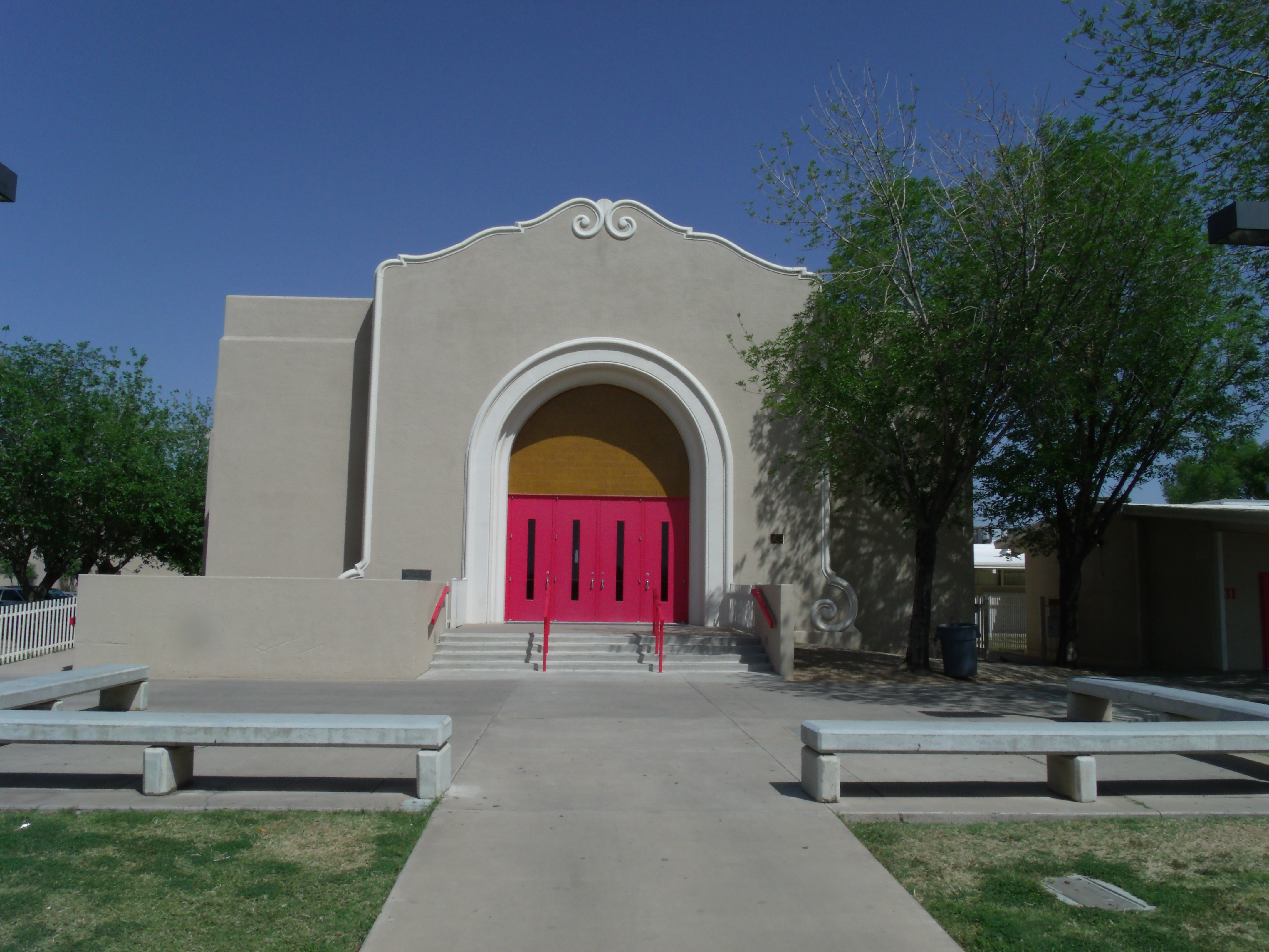 Historic (NRHP) Glendale High School Auditorium built in 1939 and located in Glendale, Arizona.